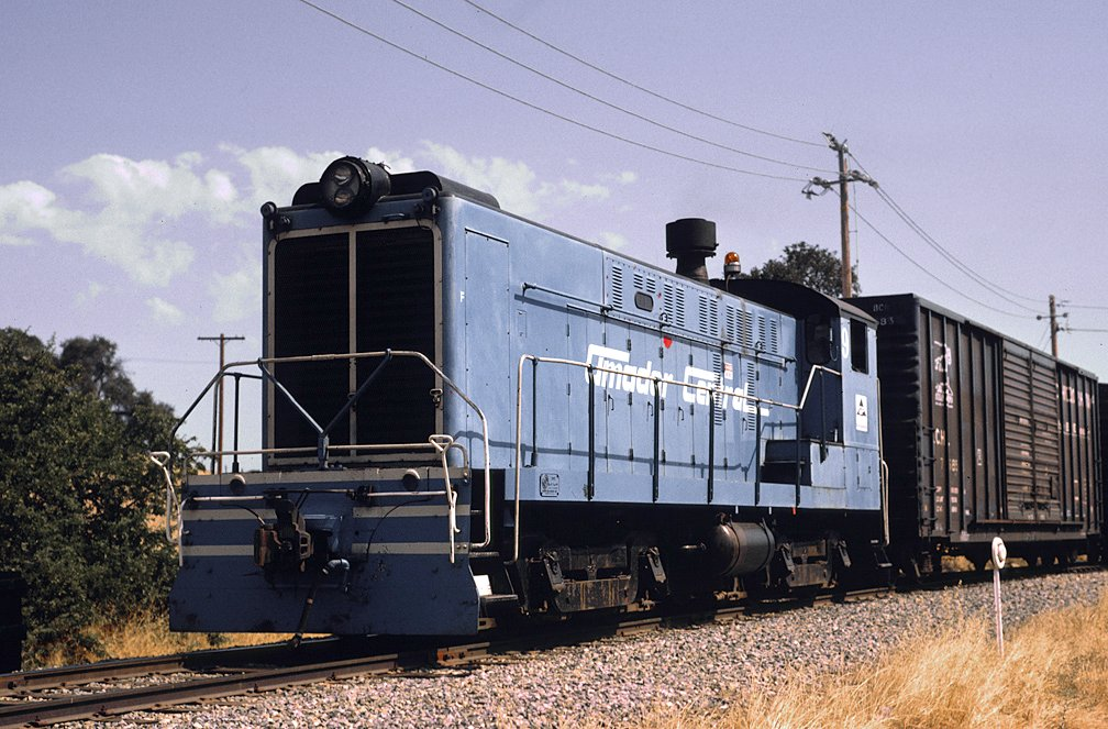 September 1988, Amador Central Baldwin S-12 leaving Martell for the SP connection at Ione